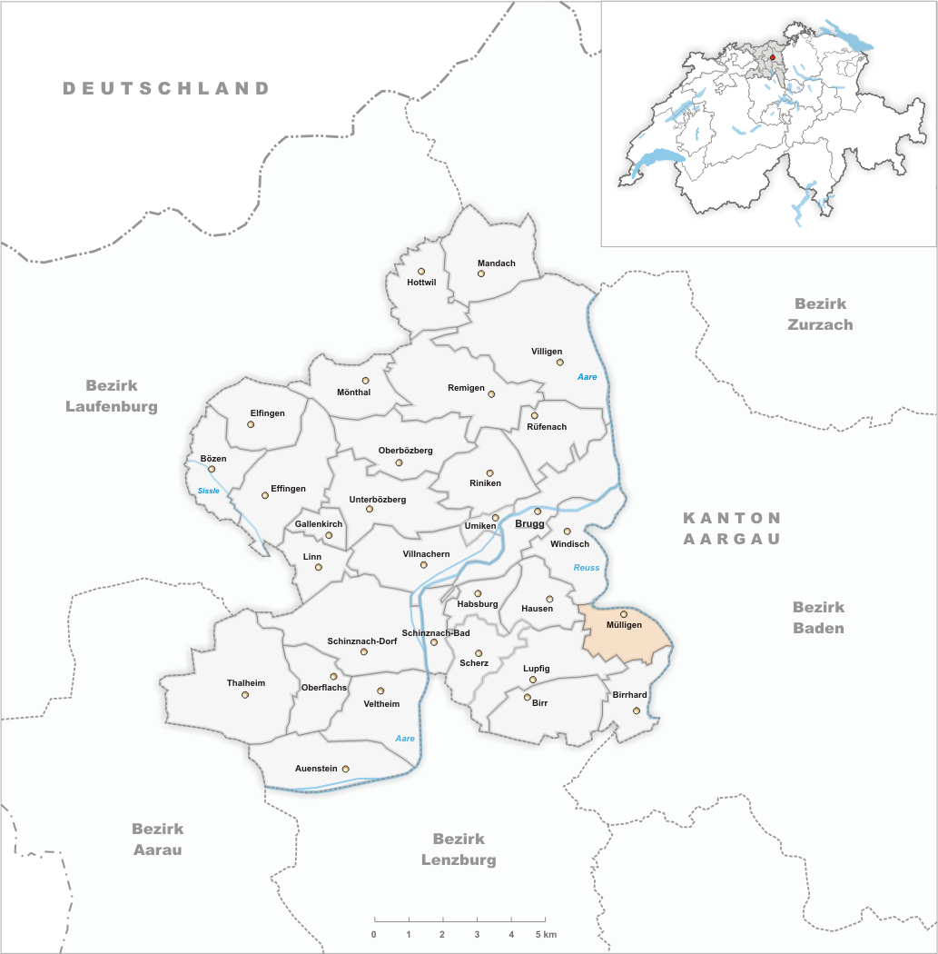 Municipality Mülligen